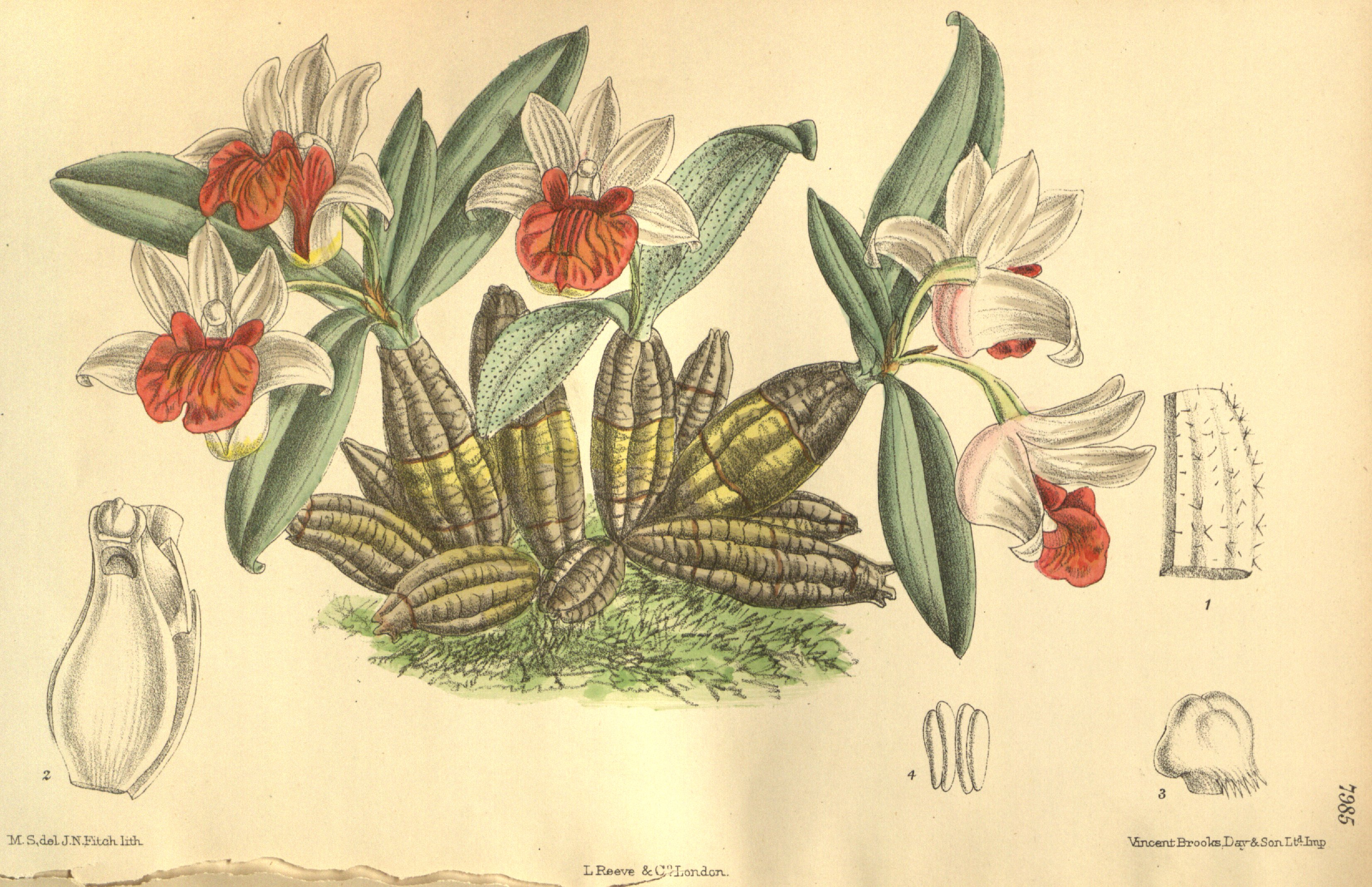 Illustration of Dendrobium bellatulum